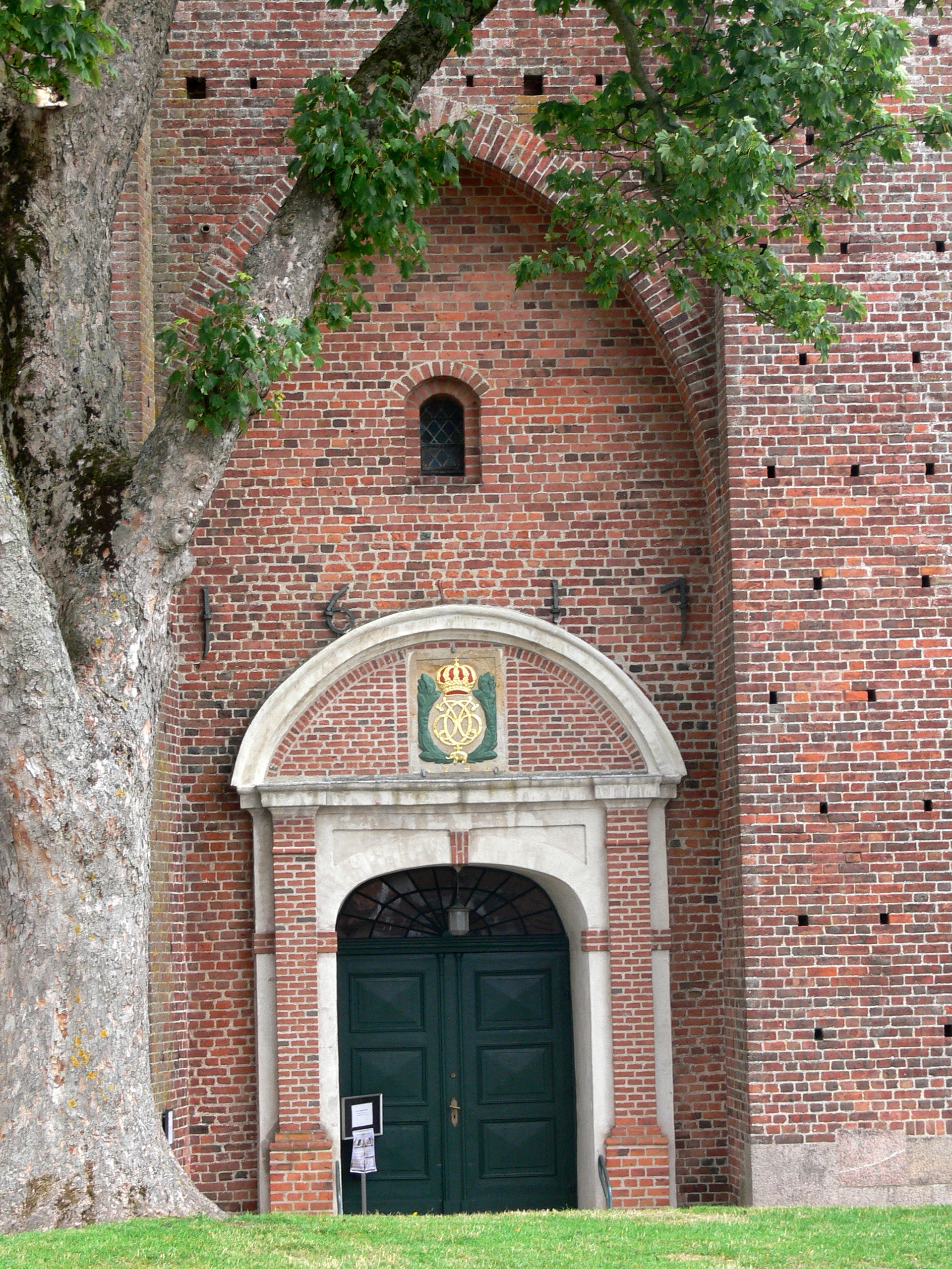 Ribe St.Catherin´s church. Main portal.